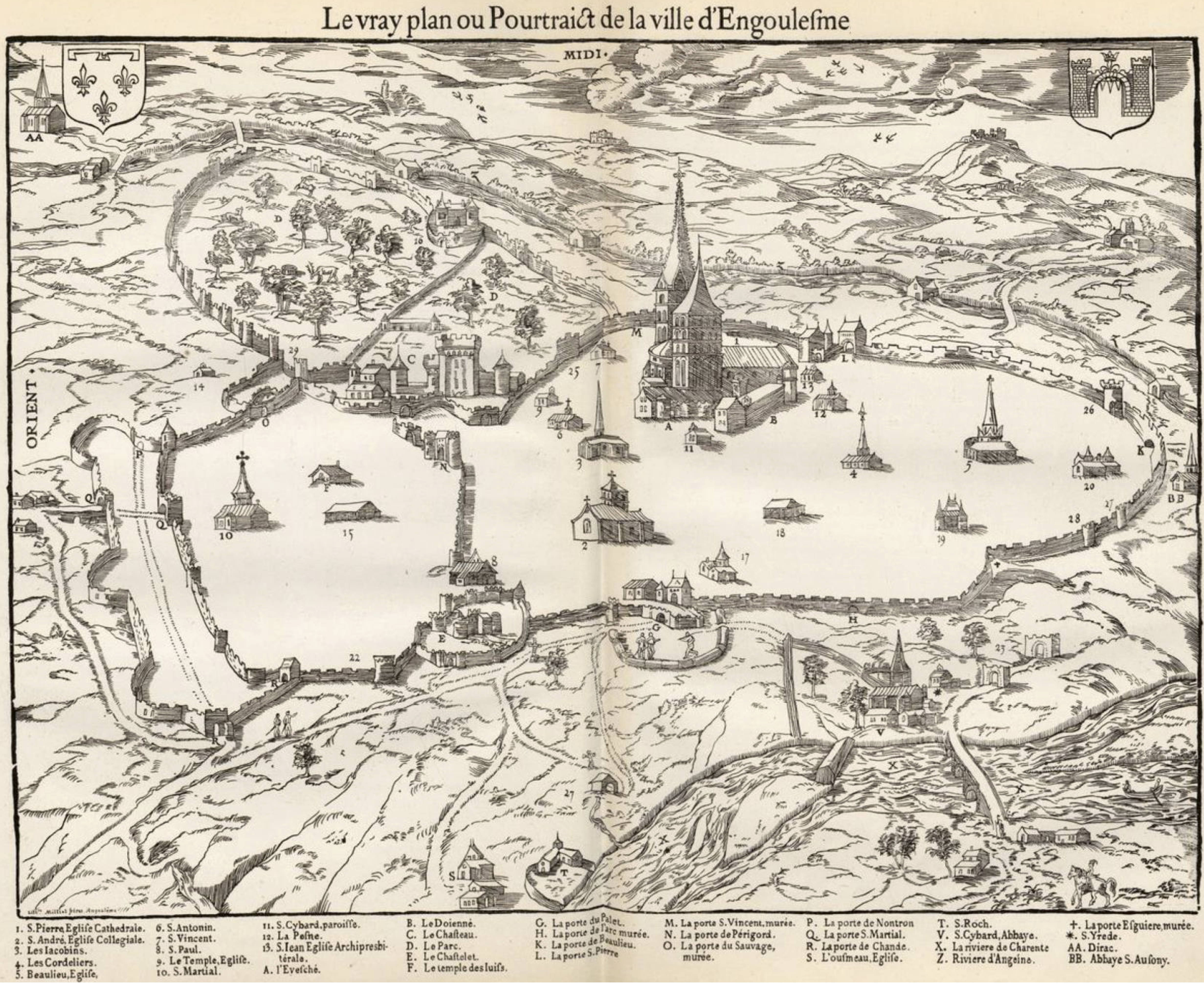 Map of Angoulême (France) drawned by François de Corlieu that he sent to Belleforest in 1575